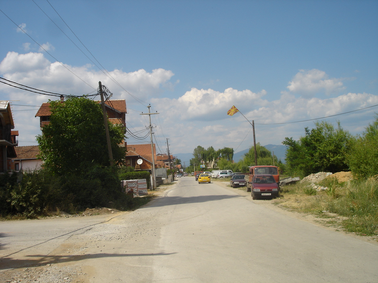 Village of Kališta near Struga, Macedonia